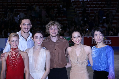 Gold Medalists at the exhibition gala of the Skate America 2013 .